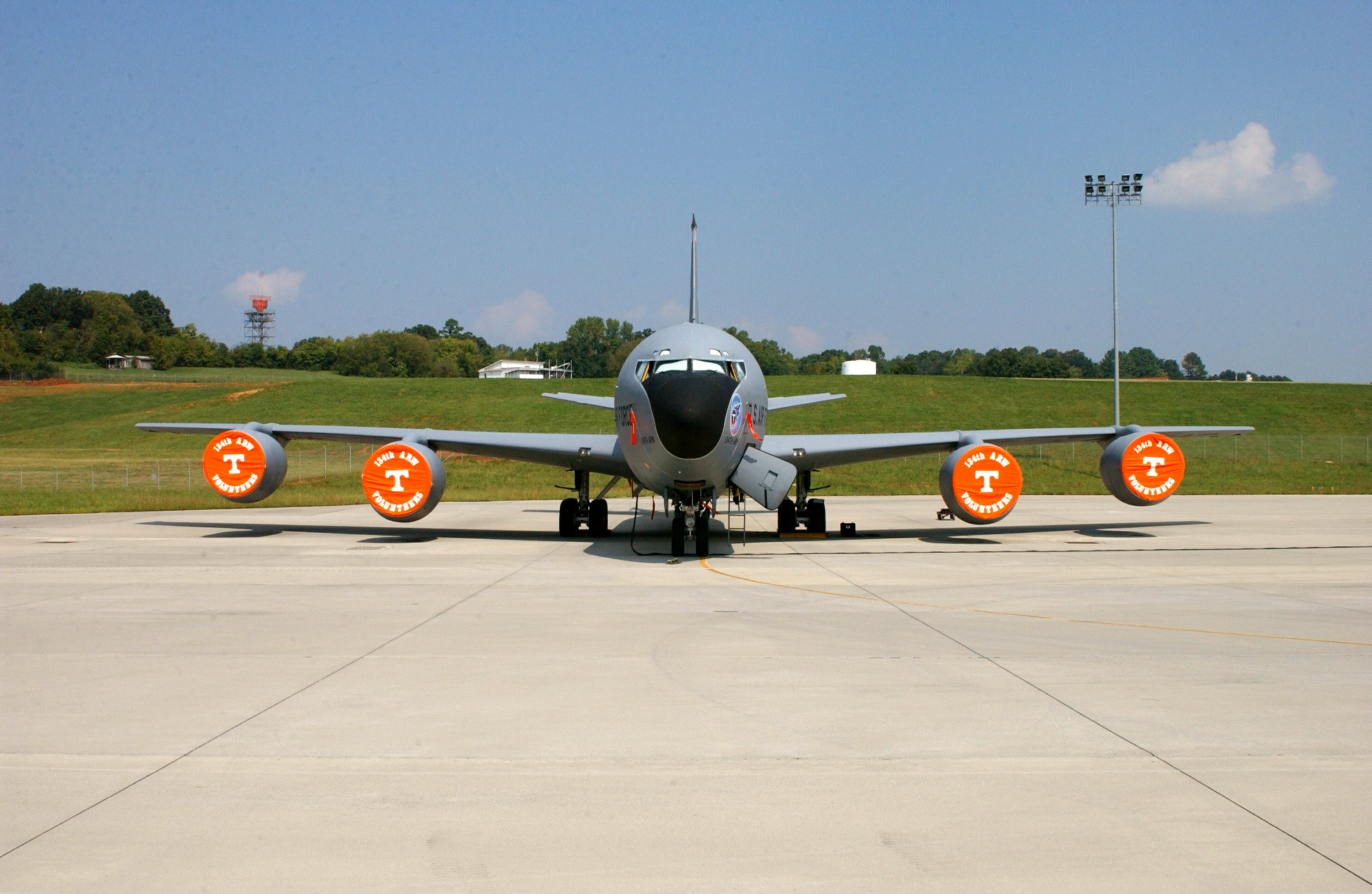 A U.S. Air Force Lockheed KC-135R Stratotanker assigned to the 151st Air Refueling Squadron, 134th Air Refueling Wing, Tennessee Air National Guard, at McGhee Tyson Air Force Base, Knoxville, Tennessee, circa 2009.